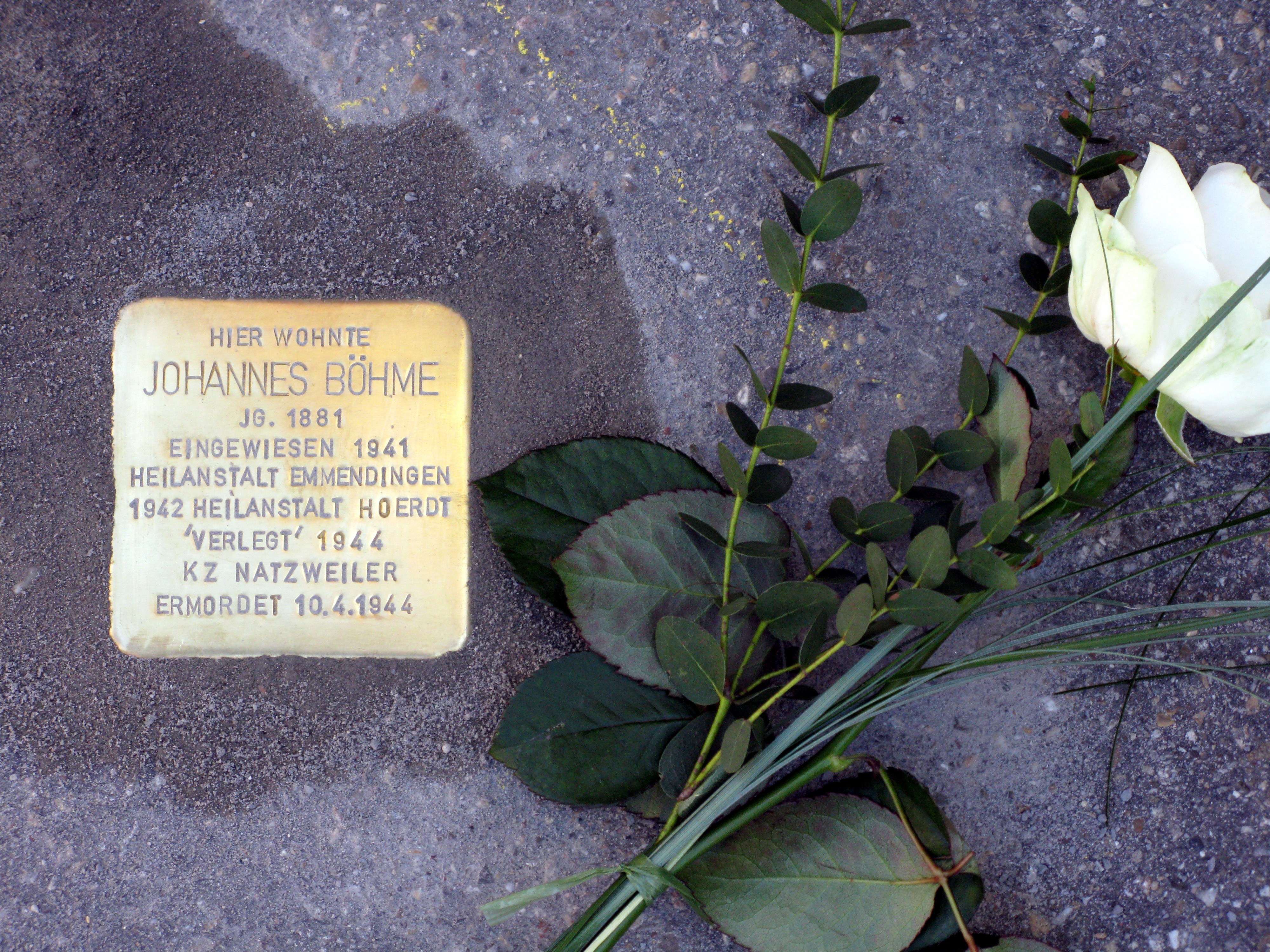 Memorial "Stolperstein" for Johannes Böhme, a homosexual victim of the Nazis. It is located in the city Lahr. The text reads: "Here lived Johannes Böhme, born 1881. Committed to the Psychiatric Clinic Emmendingen 1941. Psychiatric Clinic Hoerdt 1942. 'Transferred' 1944 to Natzweiler Concentration Camp. Murdered 10 April 1944."